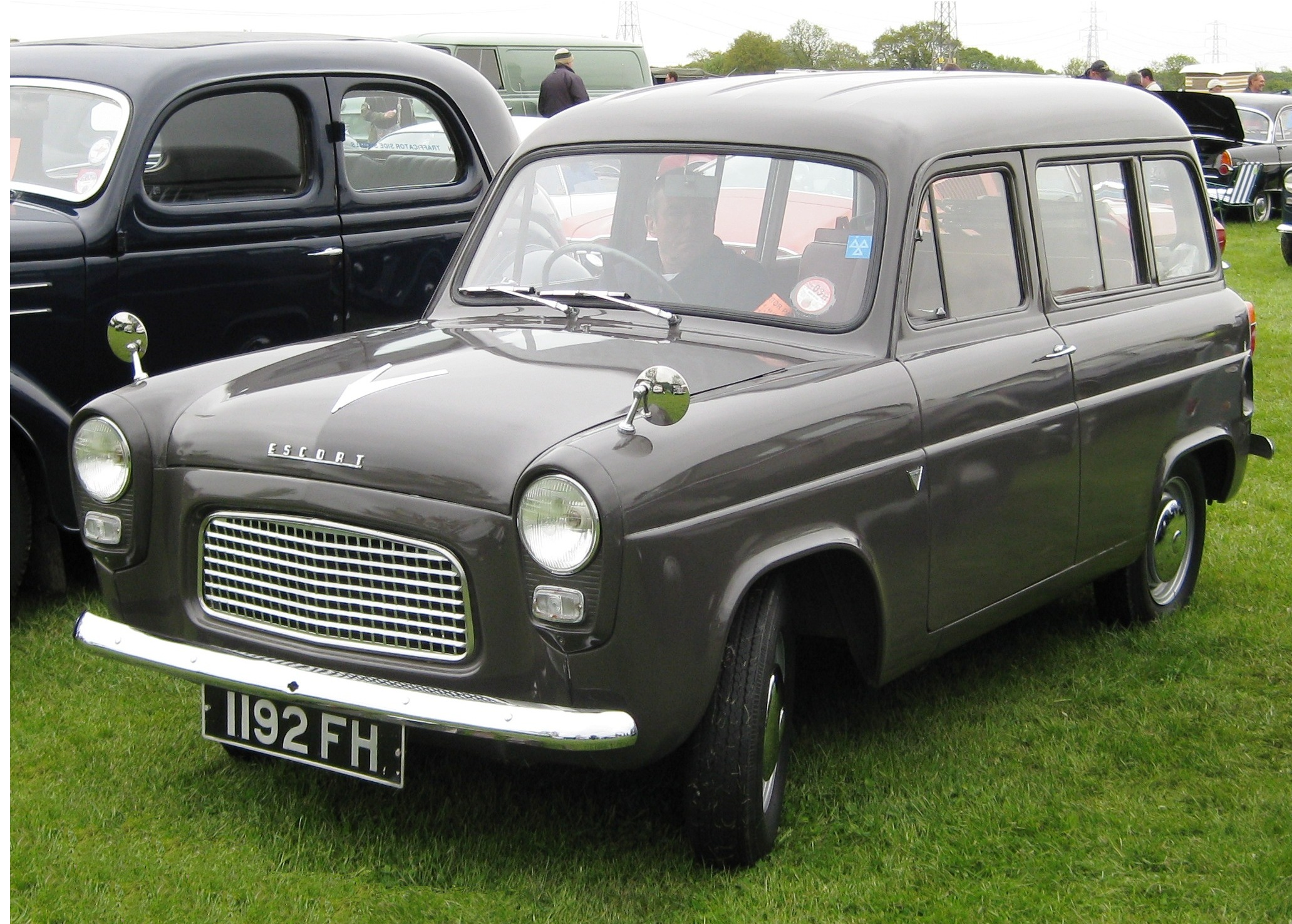 Ford Escort 1960 at Battlesbridge Classic Car Show